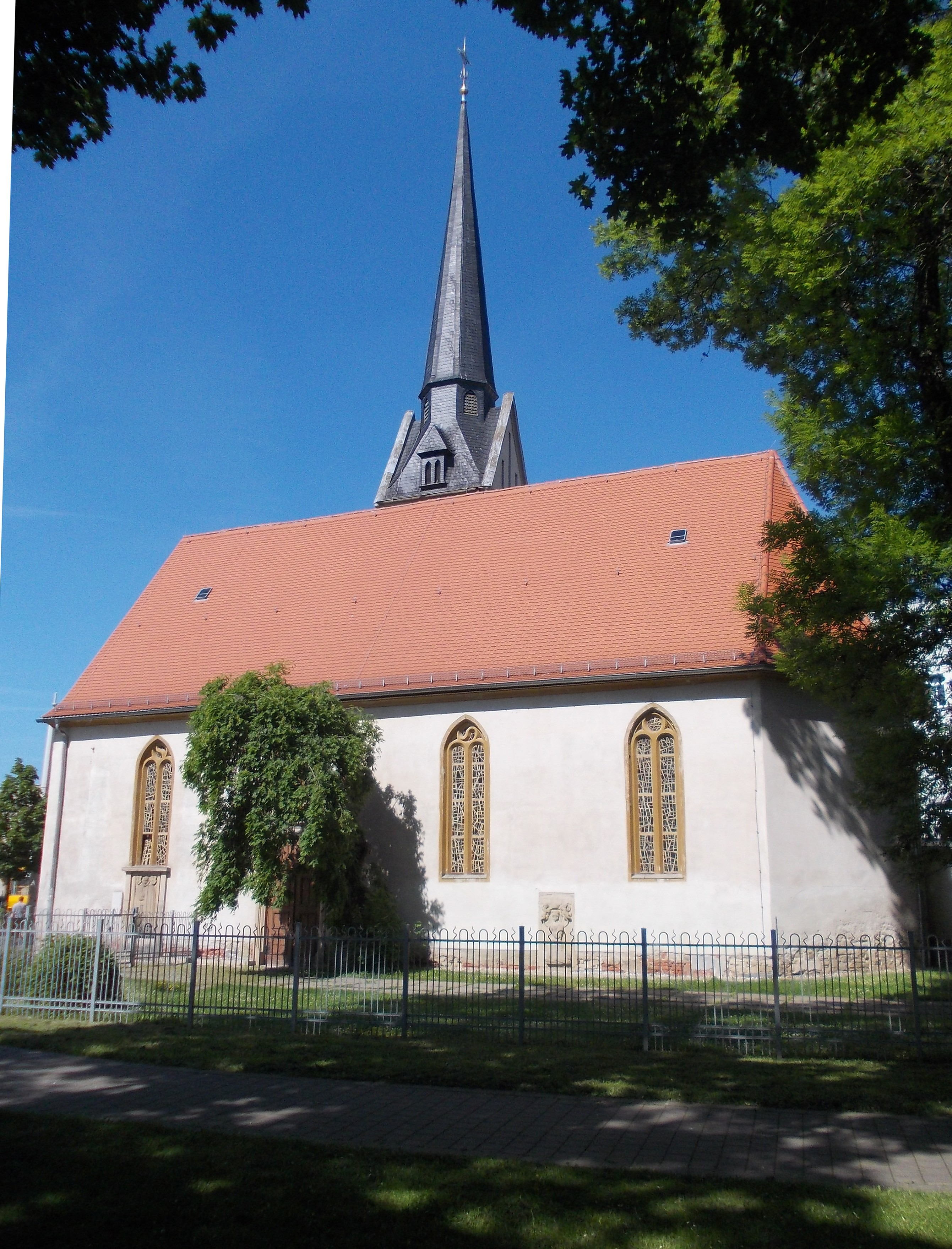 Holy Trinity Church in Gera (Thuringia)